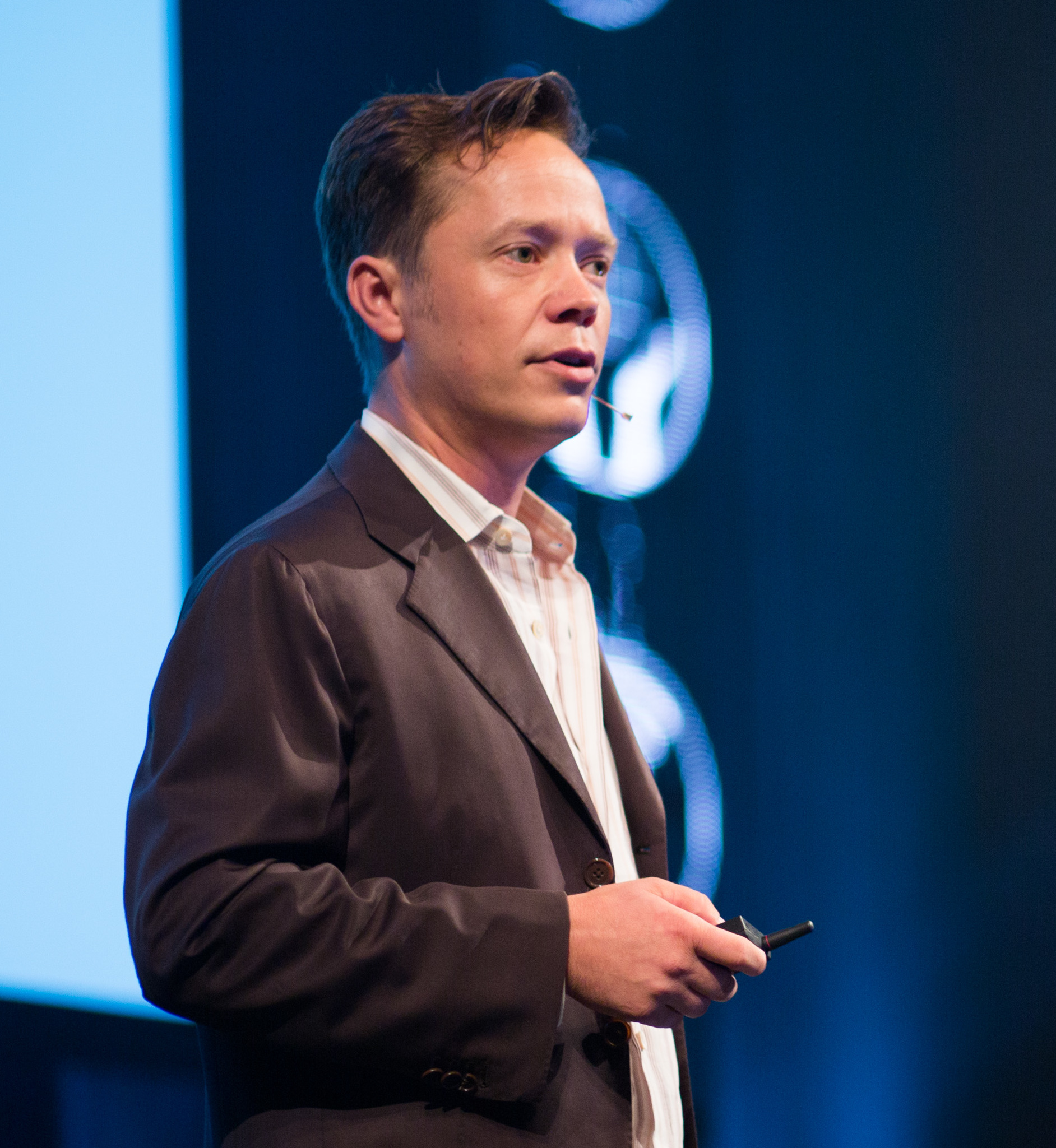 The SingularityU The Netherlands Summit 2016 took place on September 12 & 13 in Amsterdam, The Netherlands. The Netherlands Summit was aimed at bringing awareness about exponential technologies and their impact on business and policy. The theme of the summit was "Reality Check - Fast-Forward into our Future". For more information